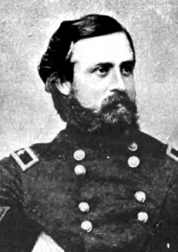 Photo of Union General John Grant Mitchell